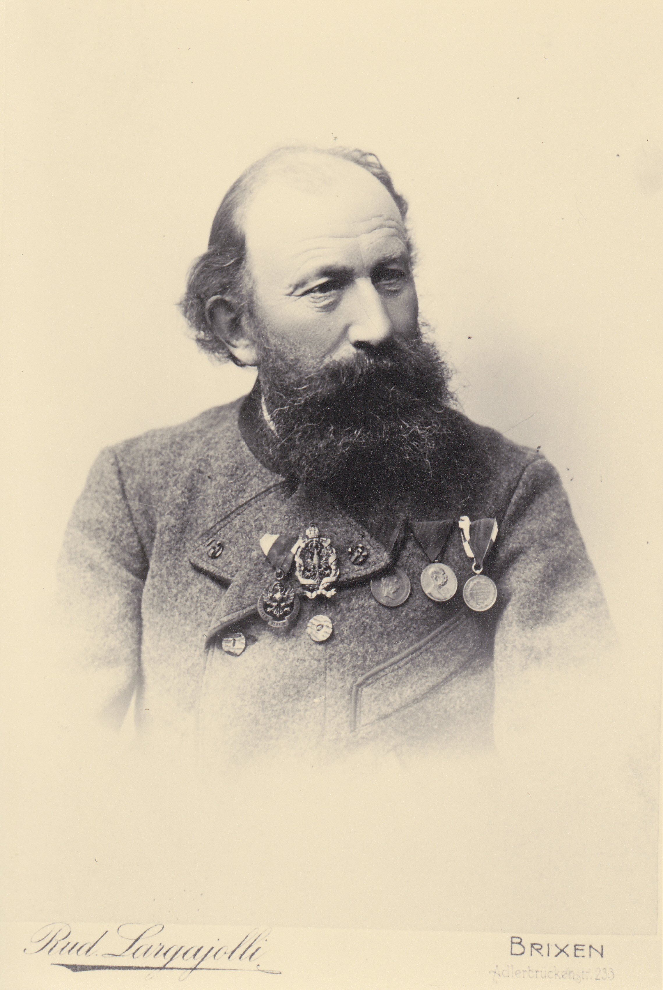 The painter Josef Barth (1842-1916) - Photo by Rudolf Largajolli Brixen